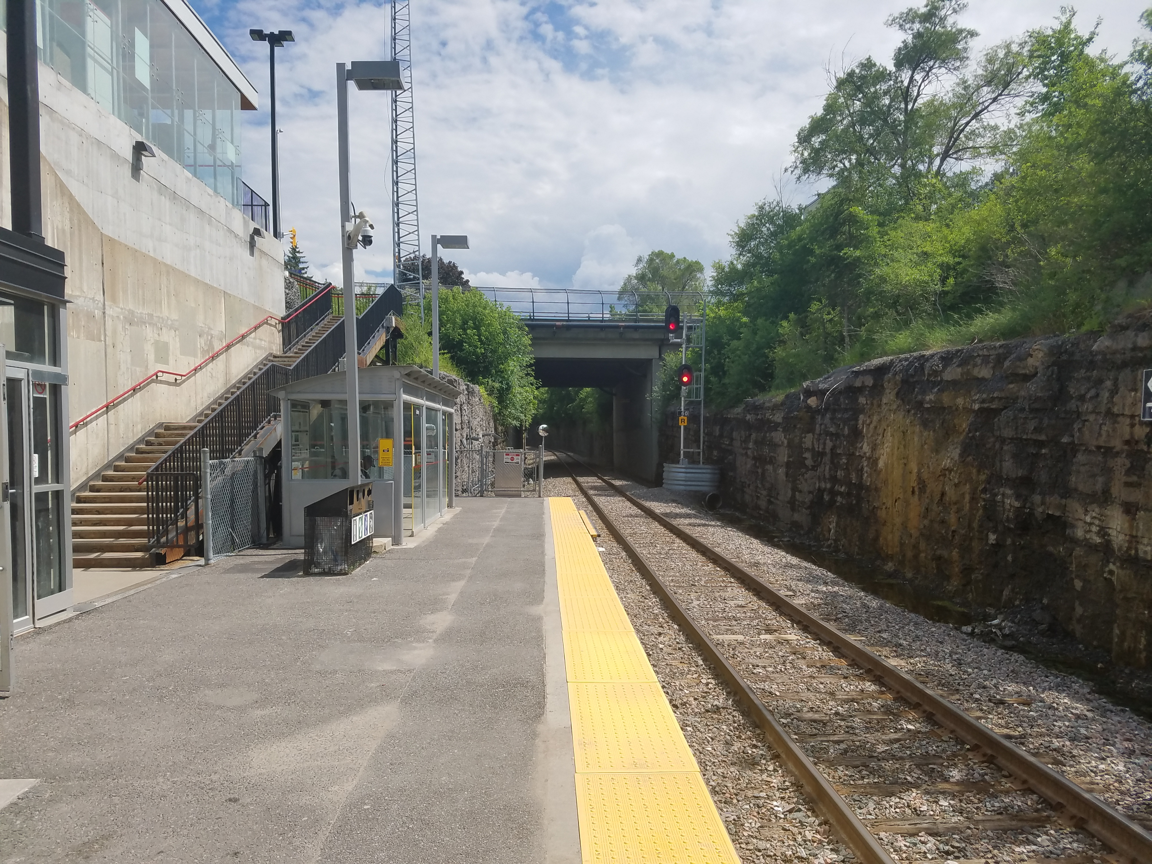 Looking South along the O-Train tracks at Carling Station in Ottawa, Ontario, Canada.